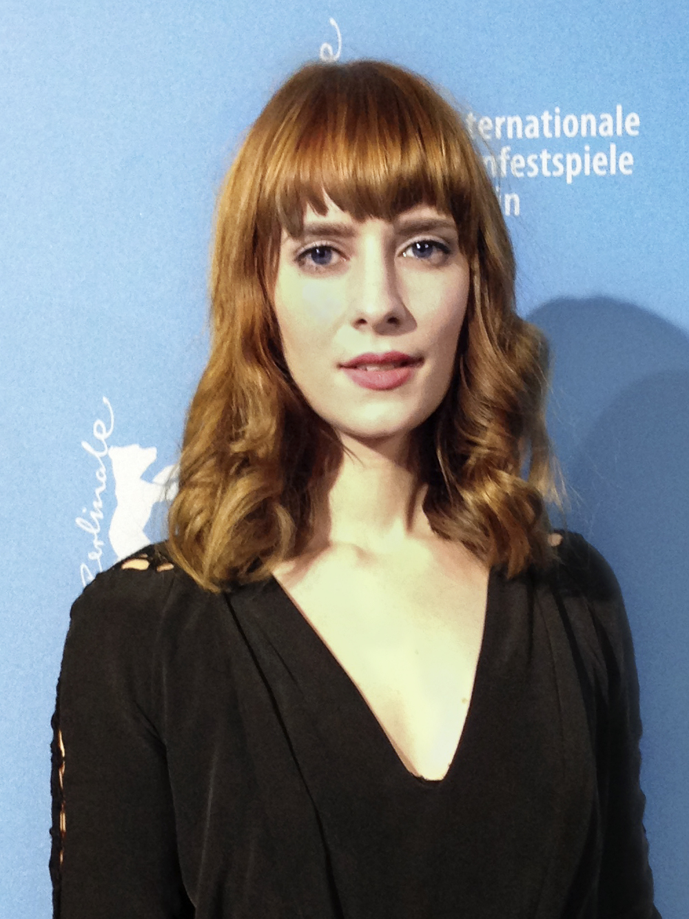 Cornelia Ivancan at the 65th Berlin International Film Festival